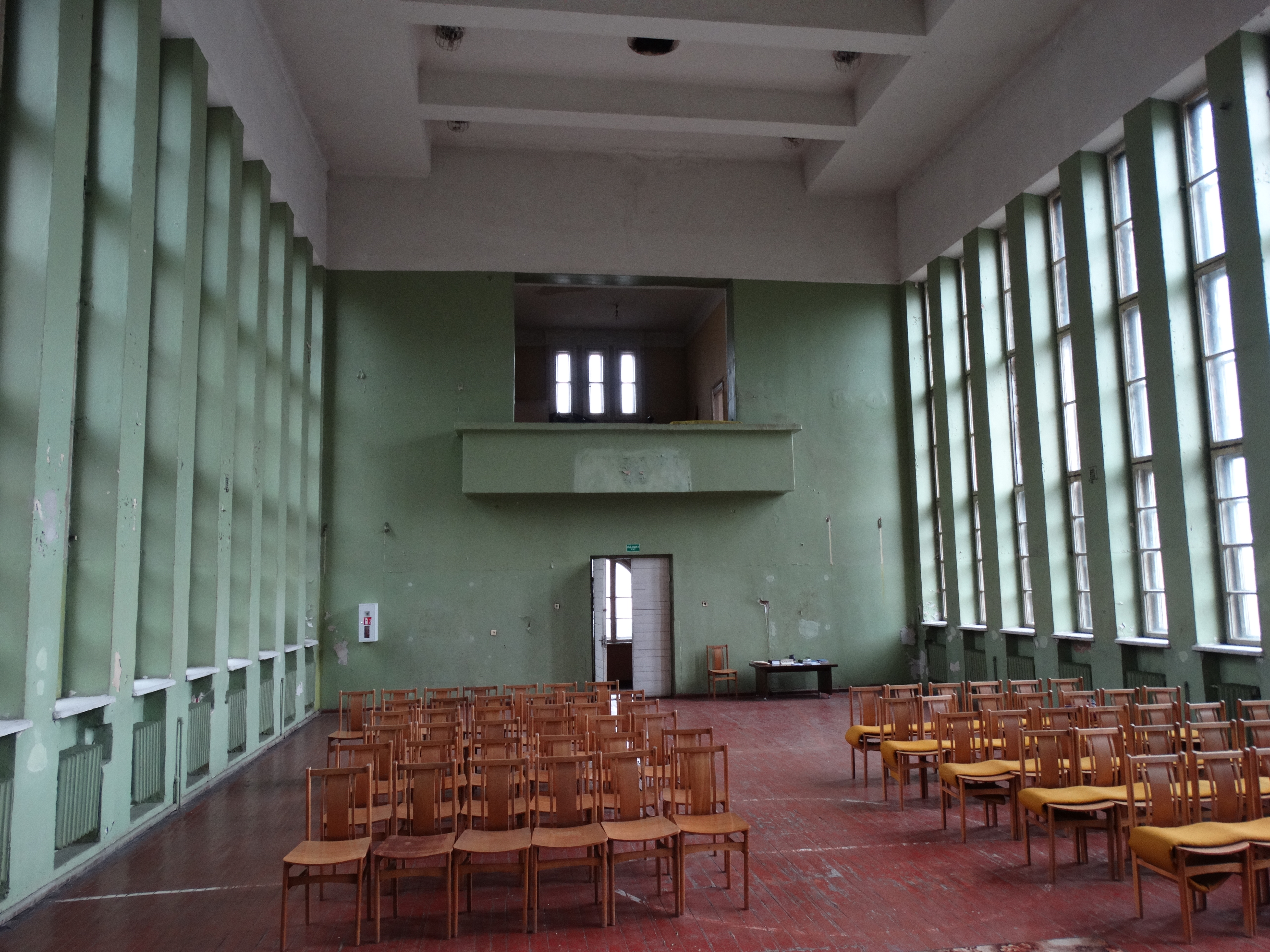 Evangelical Reformed Church in Kaunas, Lithuania